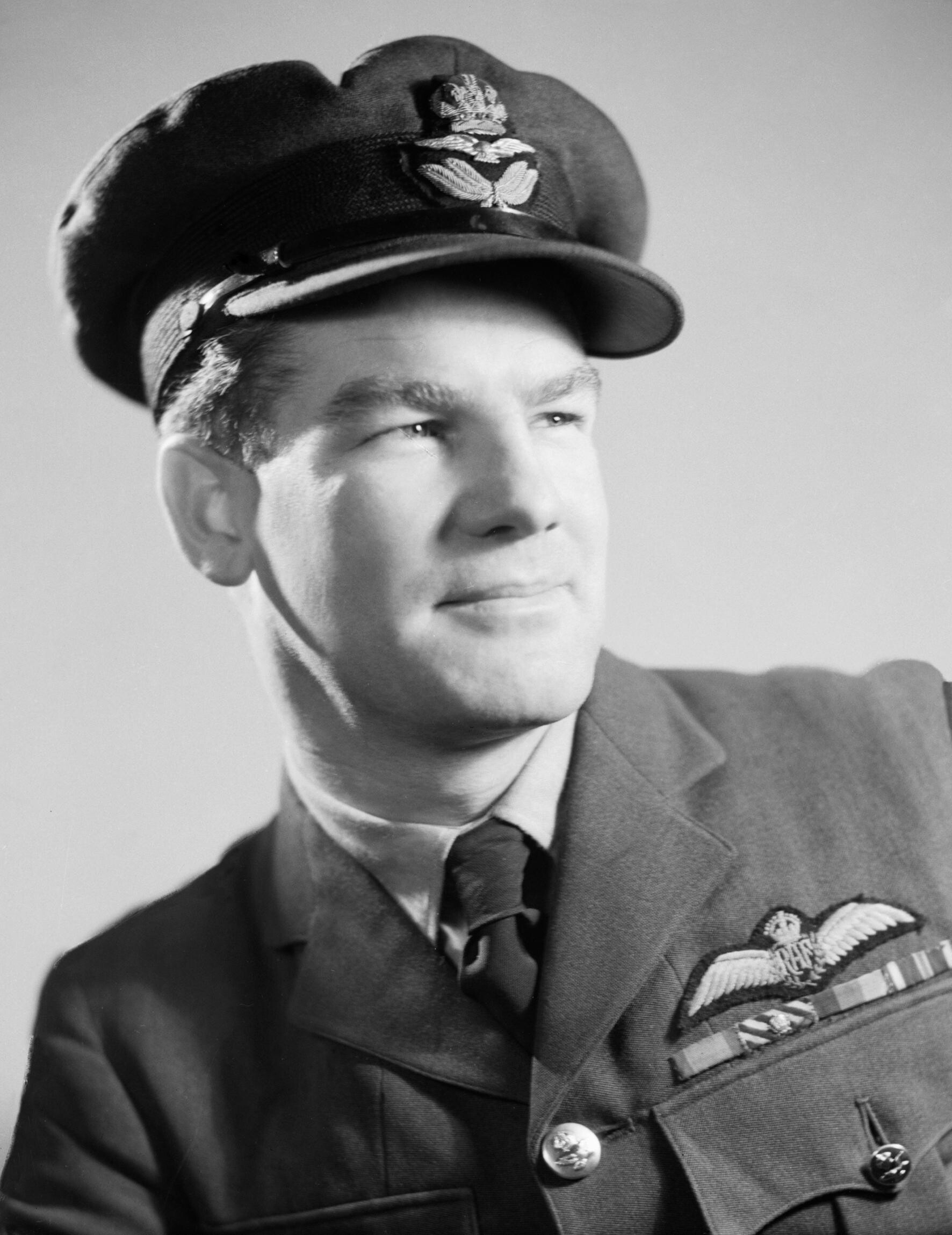 Portrait of Wing Commander Alan Christopher 'Al' Deere, RAF, July 1944. Head and shoulders portrait of Wing Commander A C Deere. Photograph taken at the Air Ministry Studios, London.